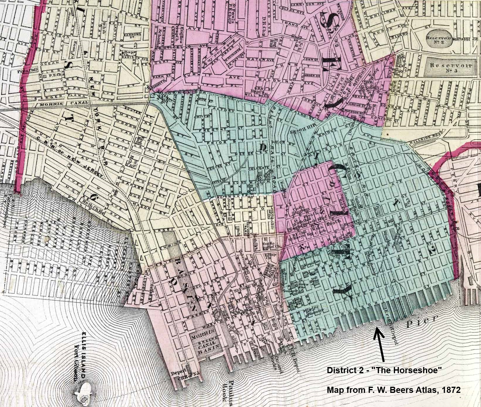 Excerpt from map found in 1872 Atlas by F. W. Beers, showing the downtown districts of the newly expanded Jersey City, including District Two, known as "The Horseshoe."